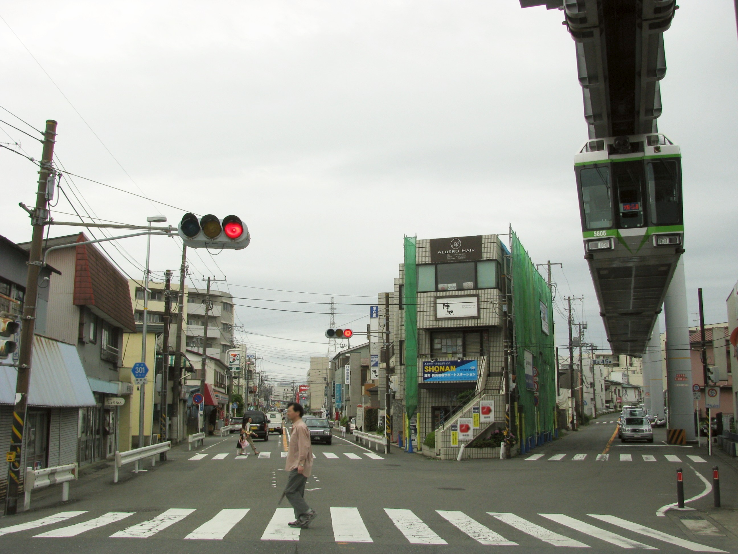 The Kanagawa Prefectural Route 301. This location is Ōfuna in Kamakura, Kanagawa Prefecture, Japan.